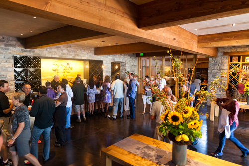 Silver Oak Cellars, Oakville.